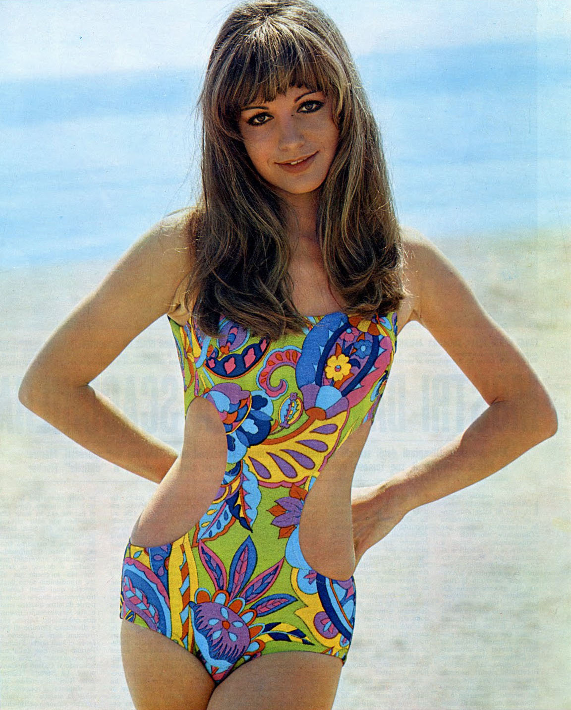 French-Italian actress and singer Catherine Spaak in 1968.